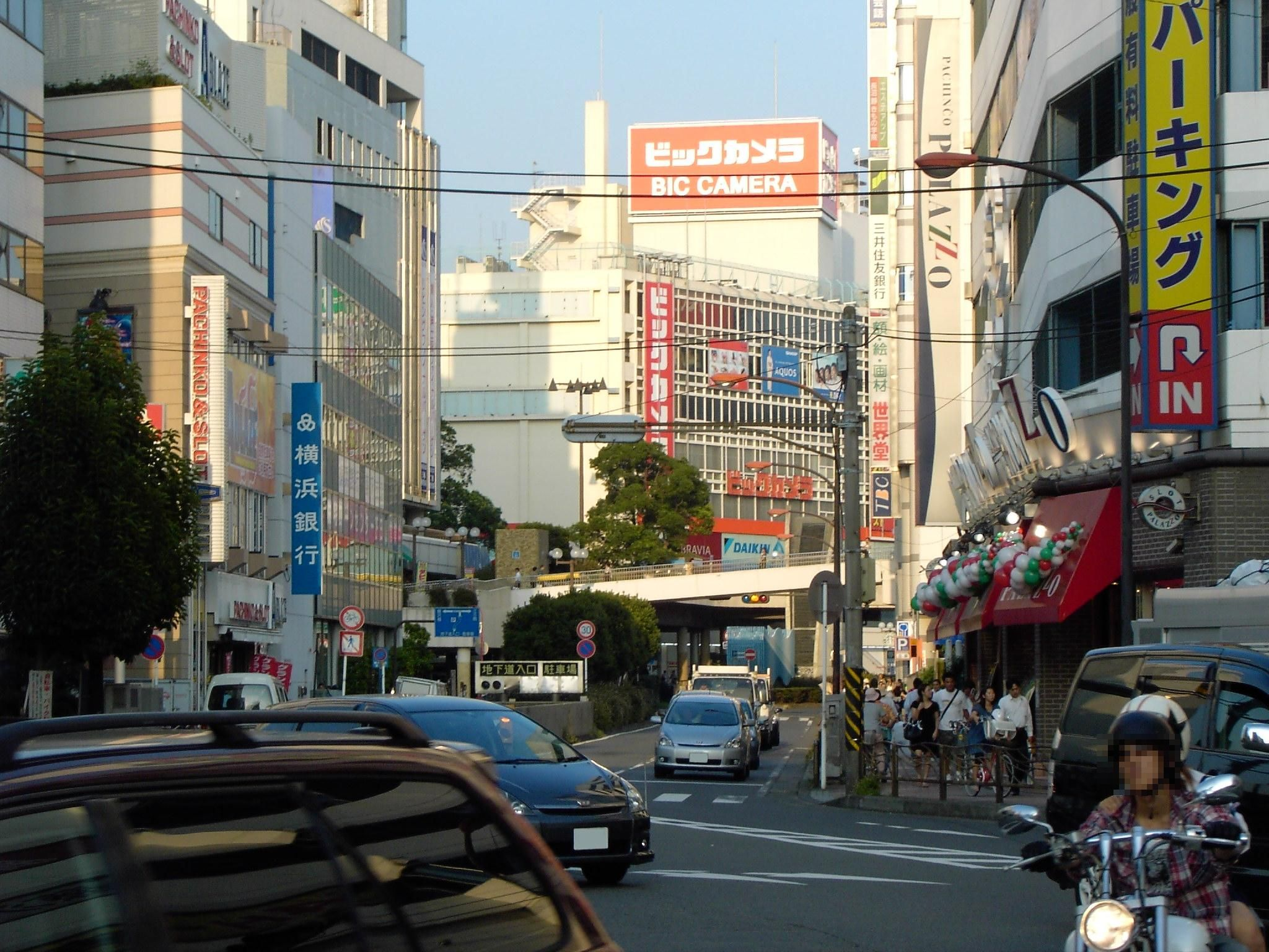 This photograph is the photograph which I photographed around Fujisawa Station of Fujisawa-shi, Kanagawa in one day in September.